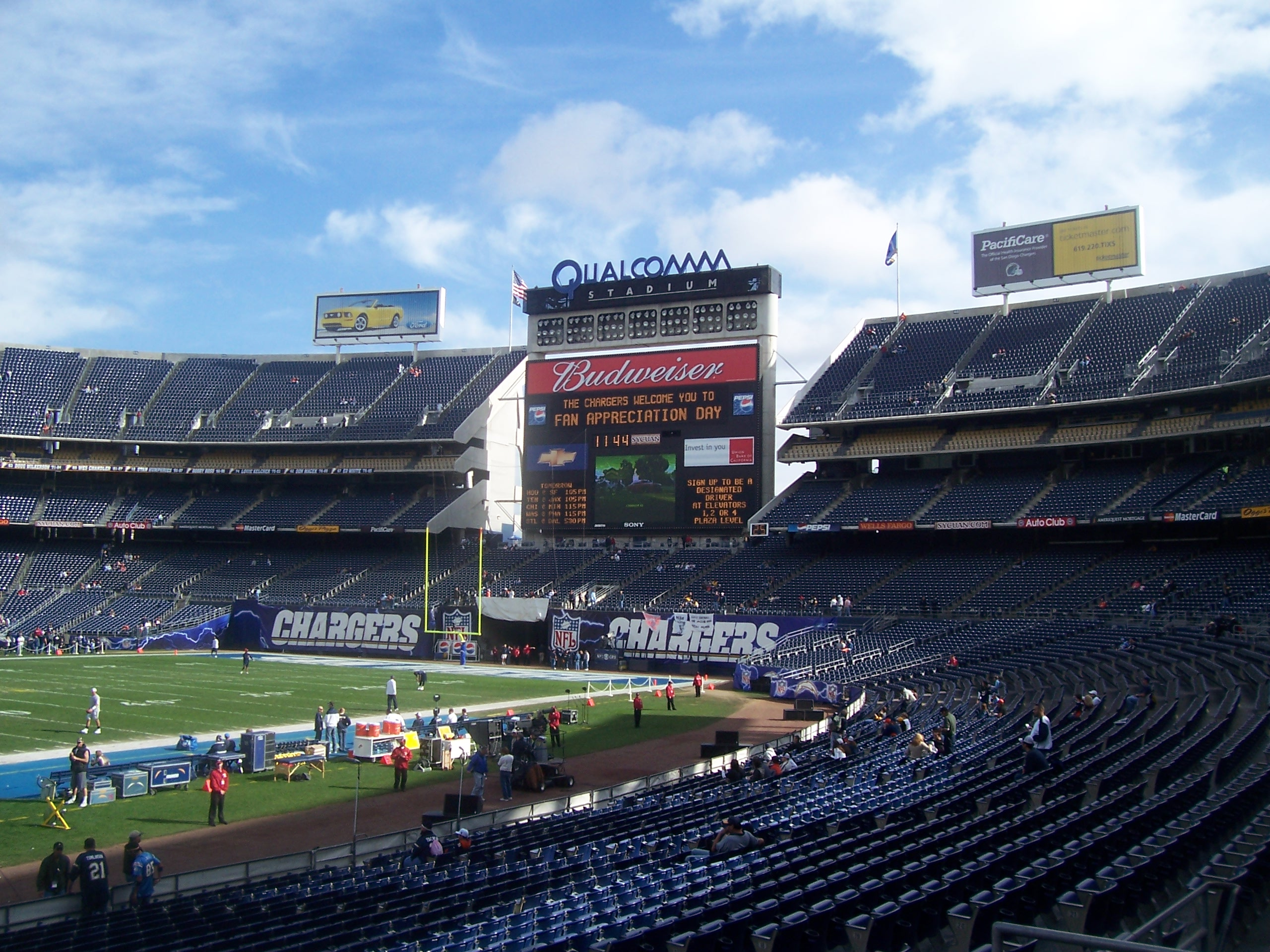 The picture was taken inside of the Qualcomm Stadium before a San Diego Chargers football game.